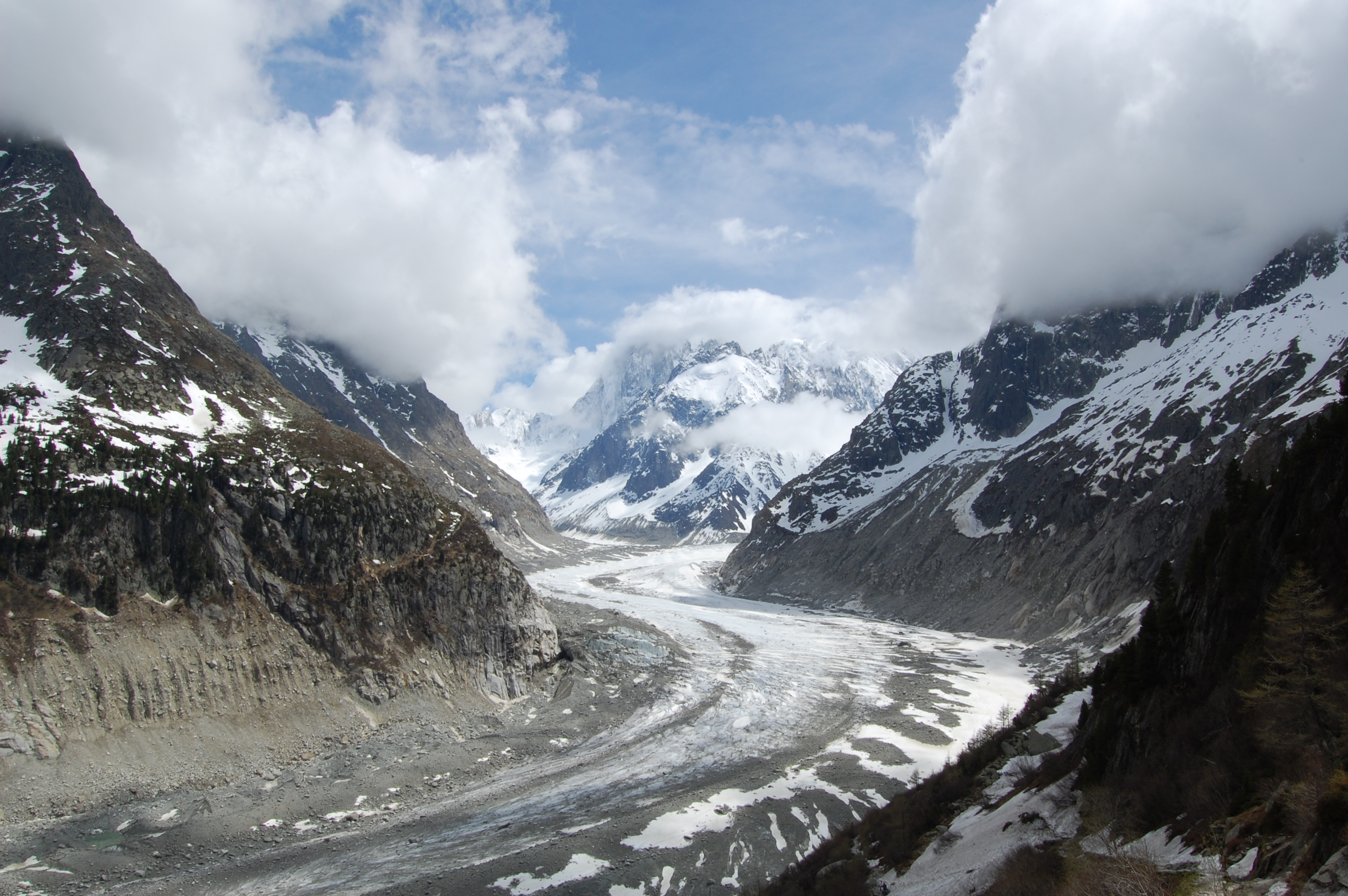 Mer de Glace in Chamonix